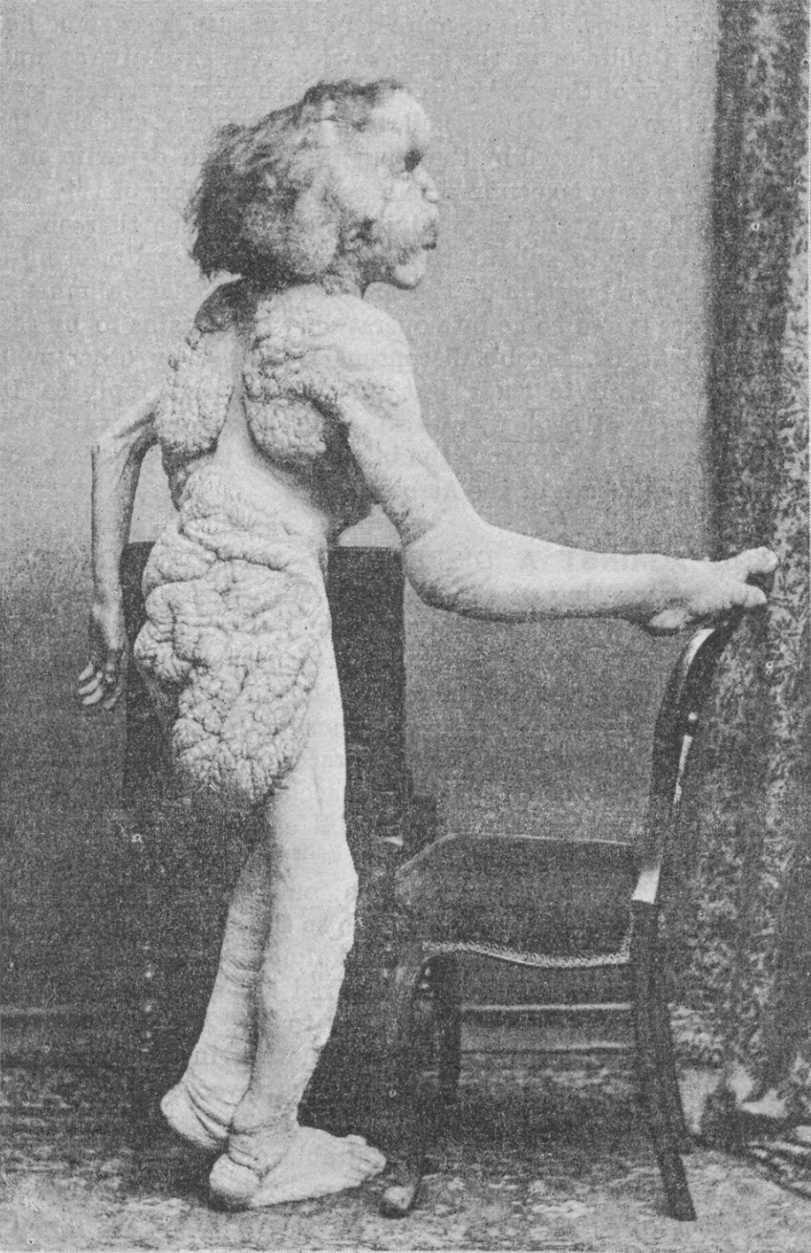 A photograph of Joseph Merrick (1862–1890), sometimes called the "Elephant Man". This photograph was published in the British Medical Journal with the announcement of Merrick's death.